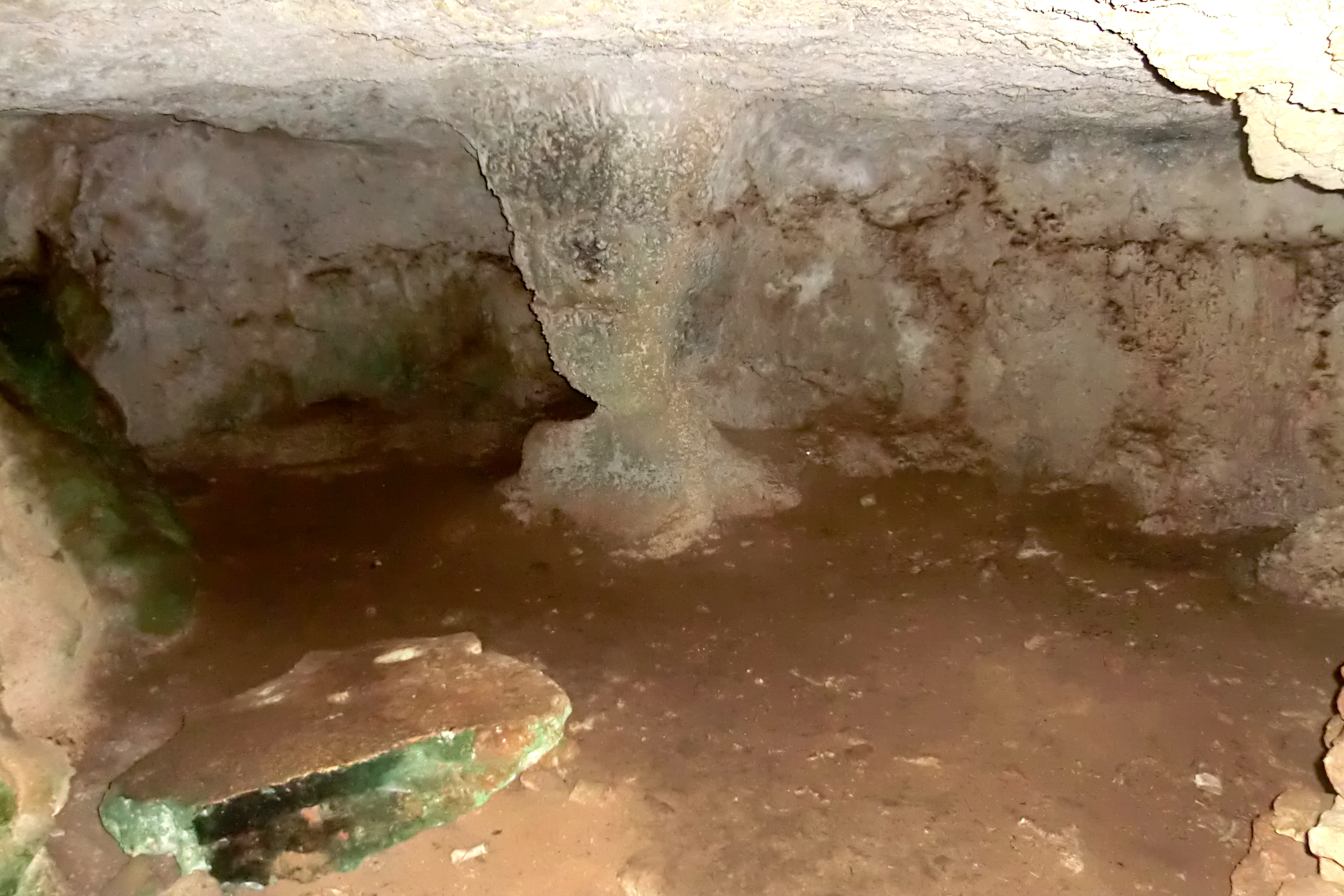 View into a hypogeum at Montefí talayotic settlement, Ciutadella, Minorca.